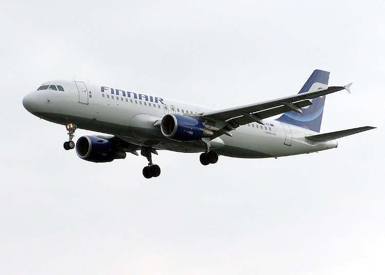 Finnair Airbus A320 landing at London Heathrow Airport